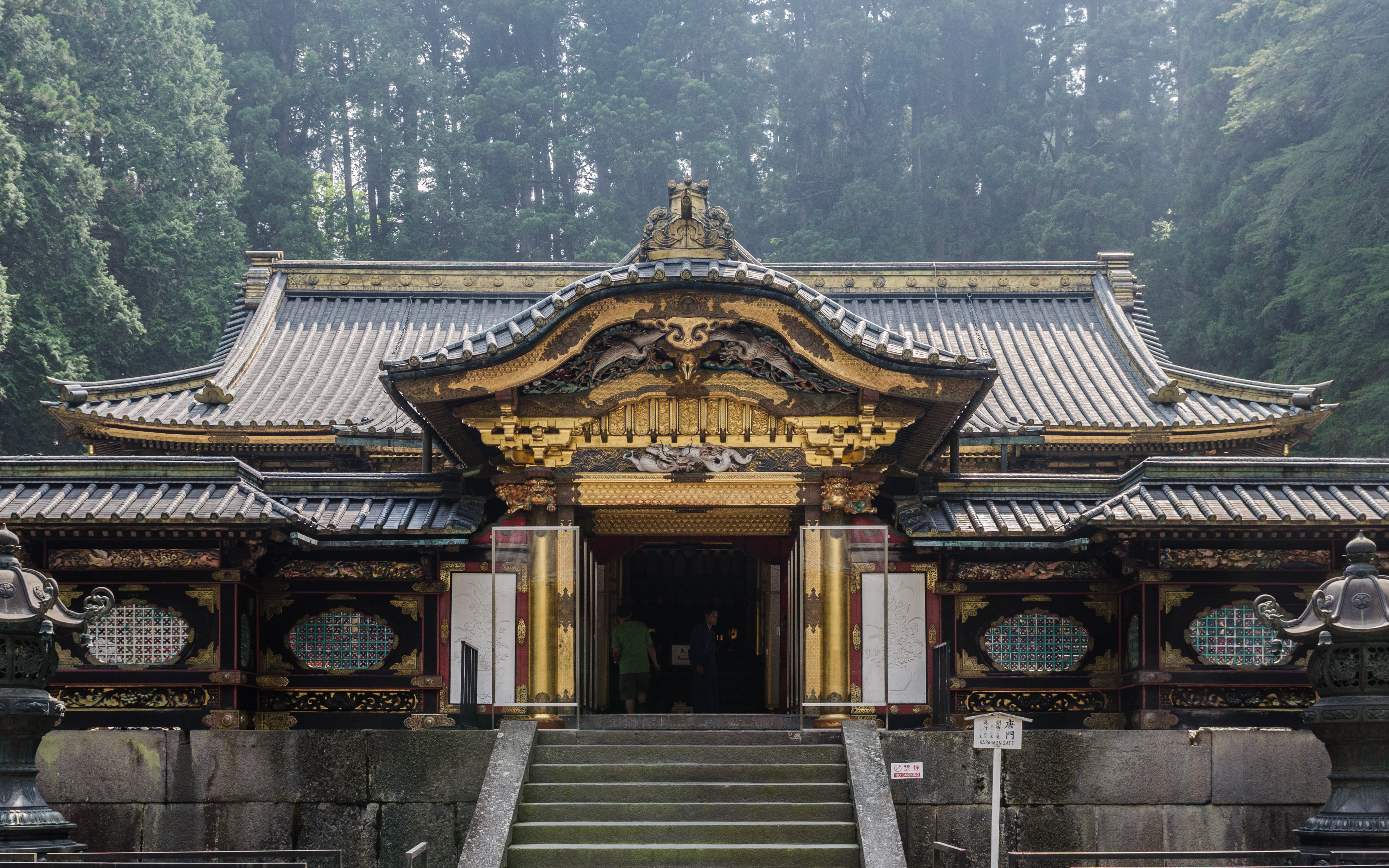 Taiyū-in Reibyō Karamon gate, part of the Shrines and Temples of Nikkō World Heritage Sites of Nikko